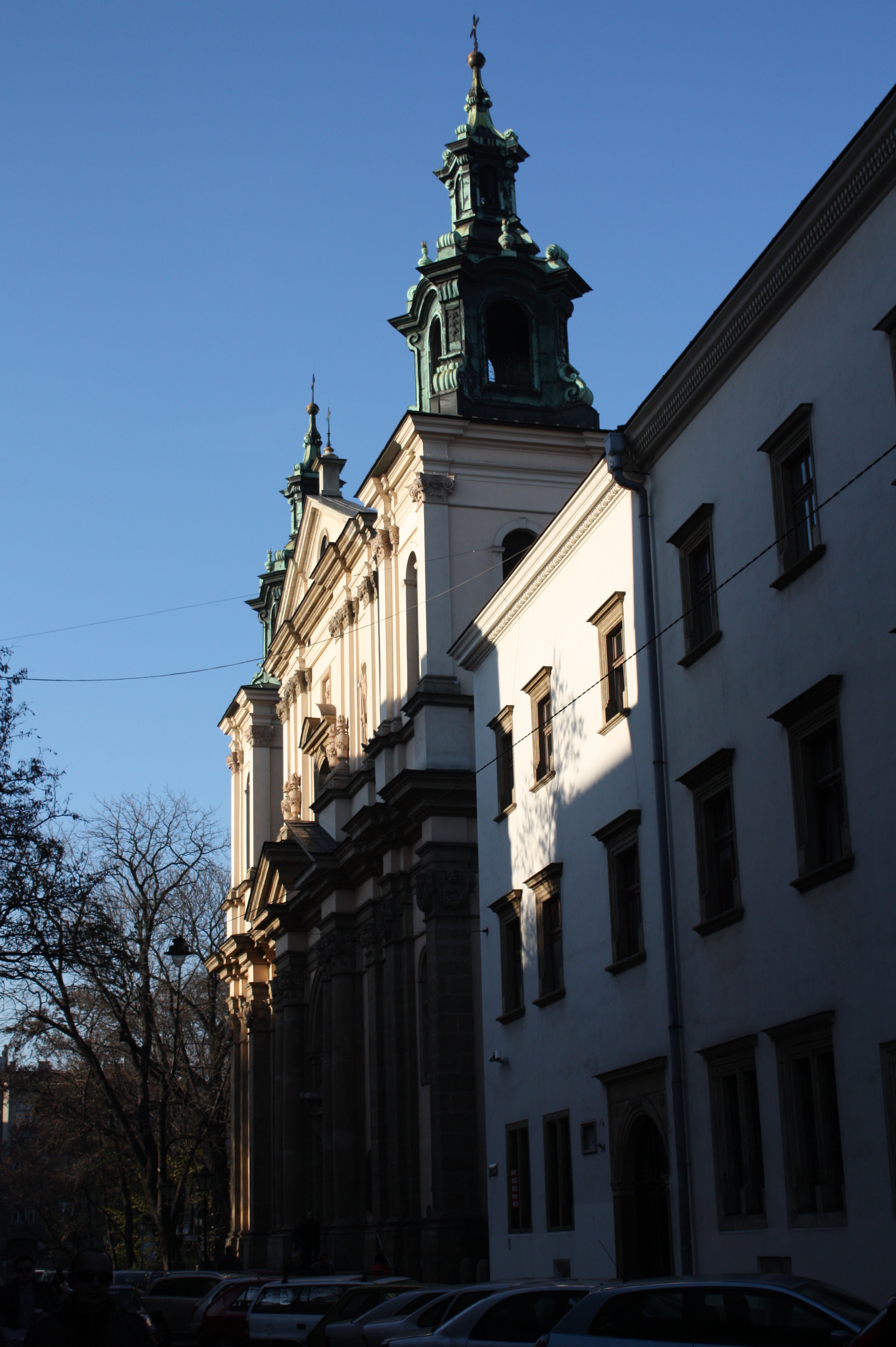 Kraków St Anna Church